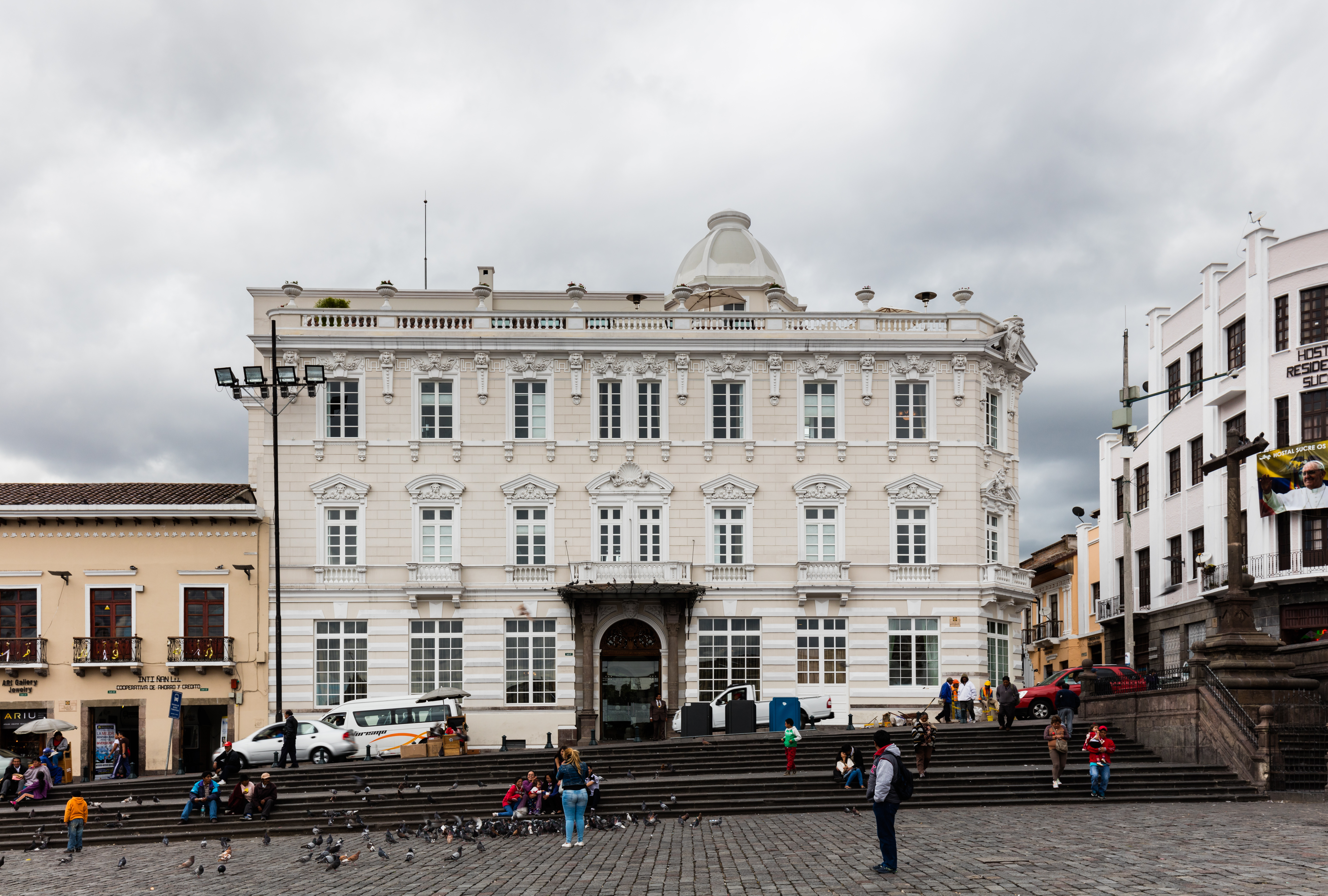 Gangotena Palace, Quito, Ecuador